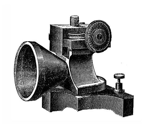 Tasimeter, detect and measure very little thermic differences.